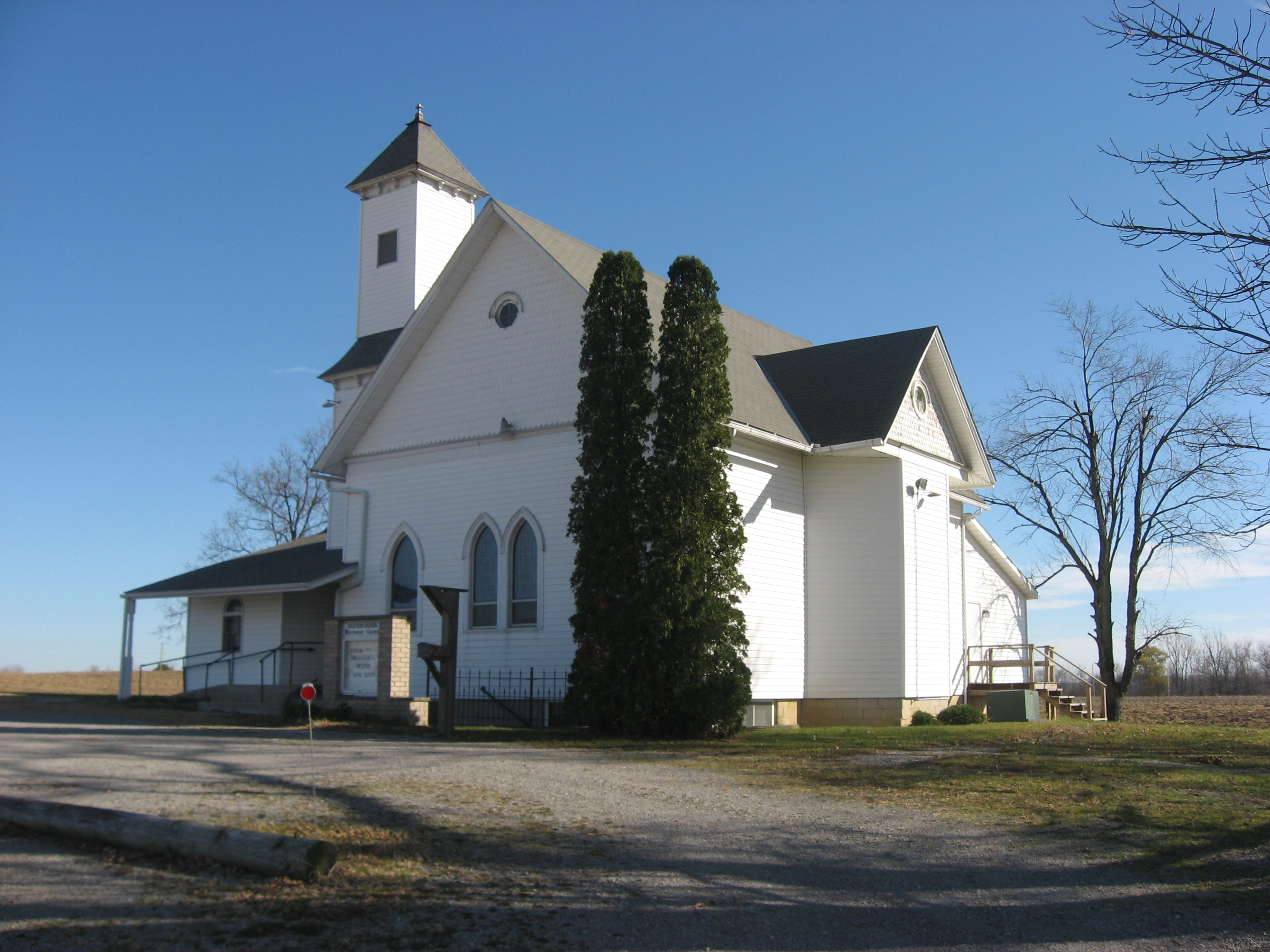 Front of Silver Creek United Methodist Church, located at 17314 County Road 115 north of Belle Center in Taylor Creek Township, Hardin County, Ohio, United States.